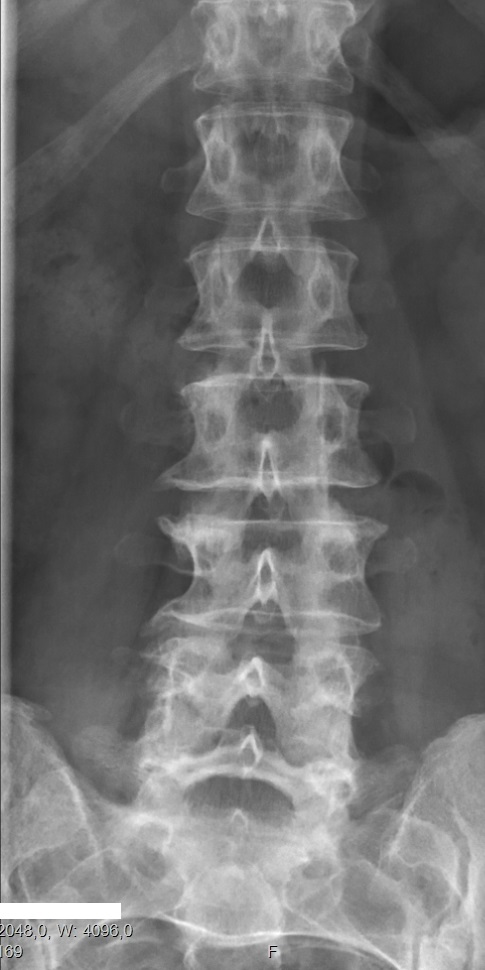 X-ray of a 60 year old woman, showing lumbarization of sacral vertebra 1, seen as 6 vertebrae that do not not connect to ribs.